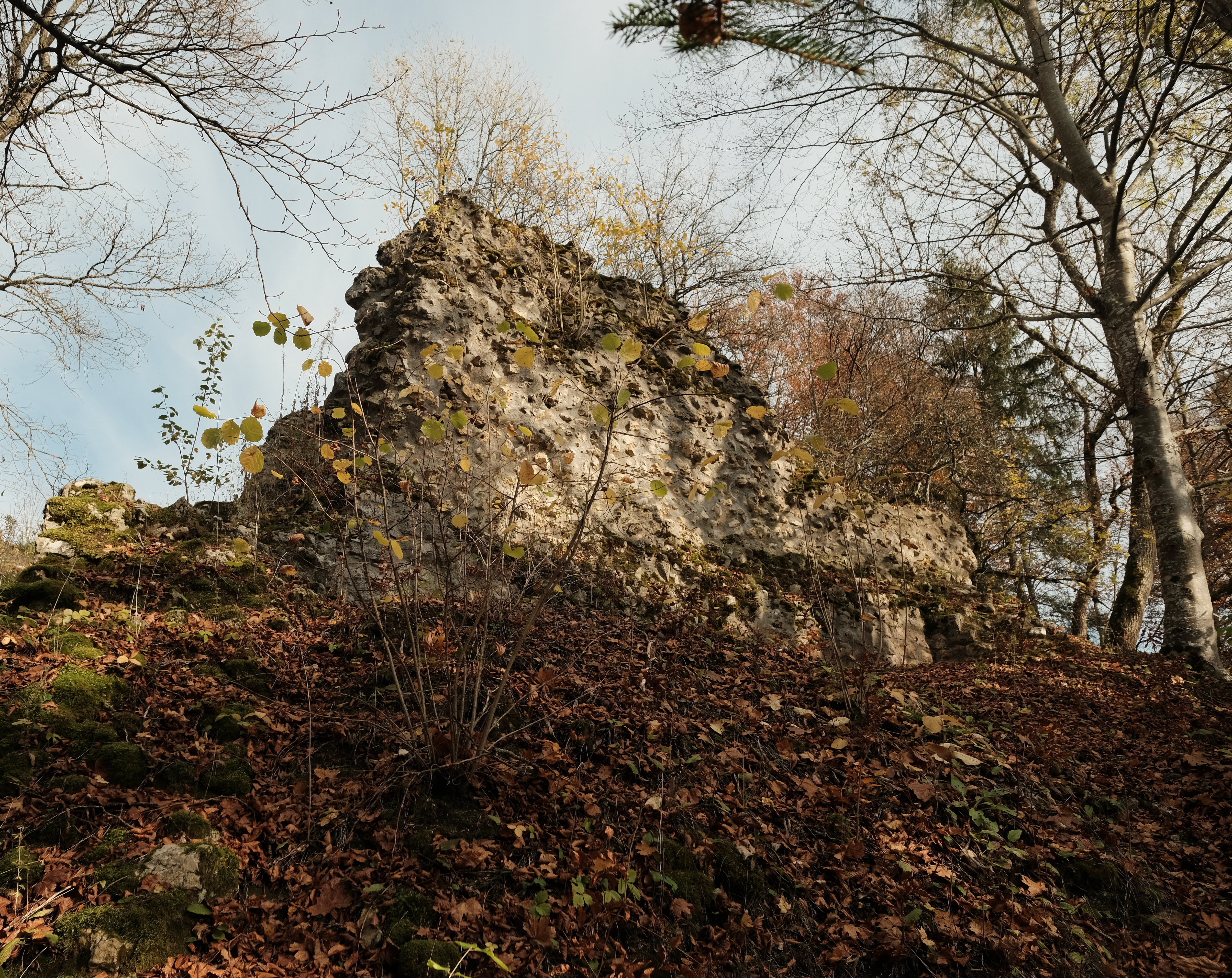 Castle ruin Kraftstein, Kraftstein, Mühlheim an der Donau, district Tuttlingen, Baden-Württemberg, Germany